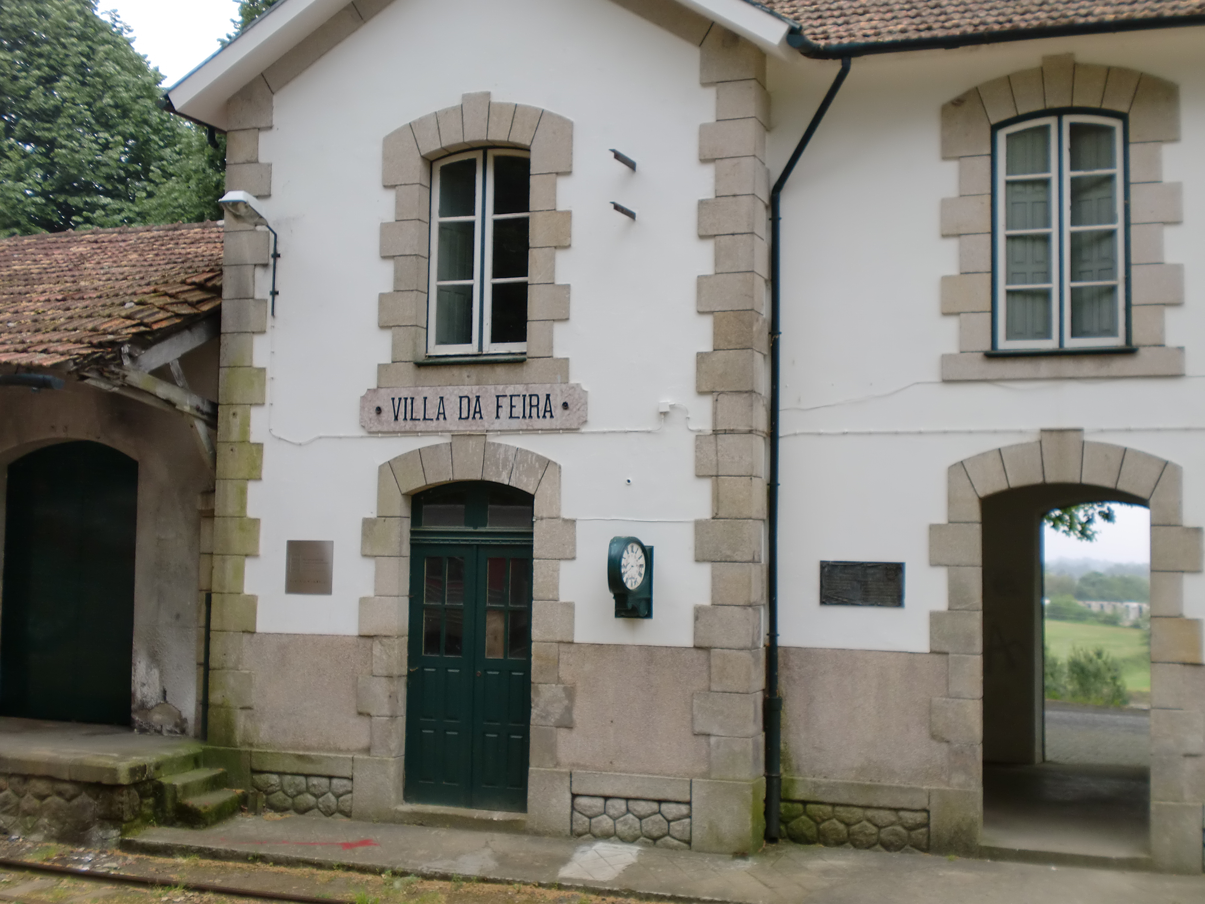 Vila da Feira station